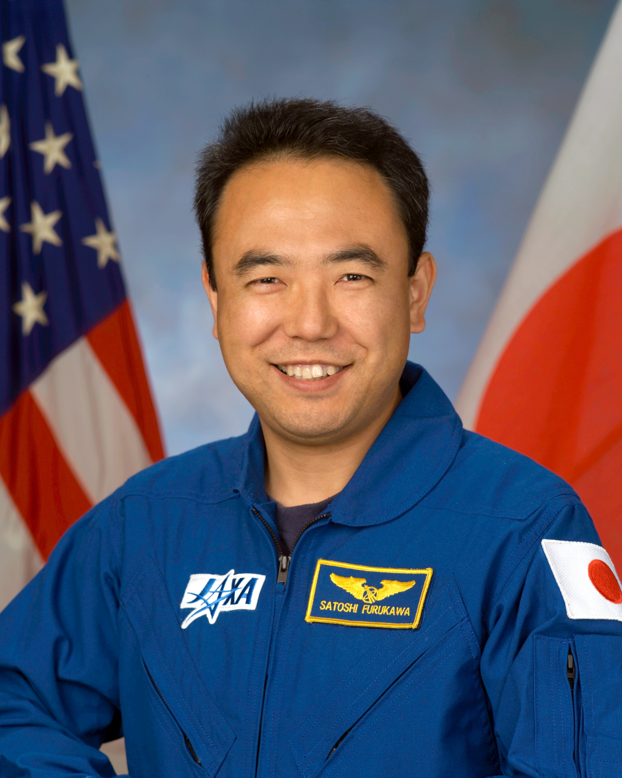 Satoshi Furukawa, ASCAN Class of 2004, representing the Japan Aerospace Exploration Agency (JAXA).